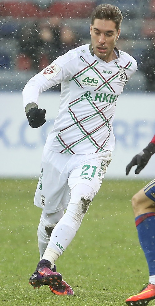 Rubén Rochina with FC Rubin Kazan in a game against PFC CSKA Moscow.